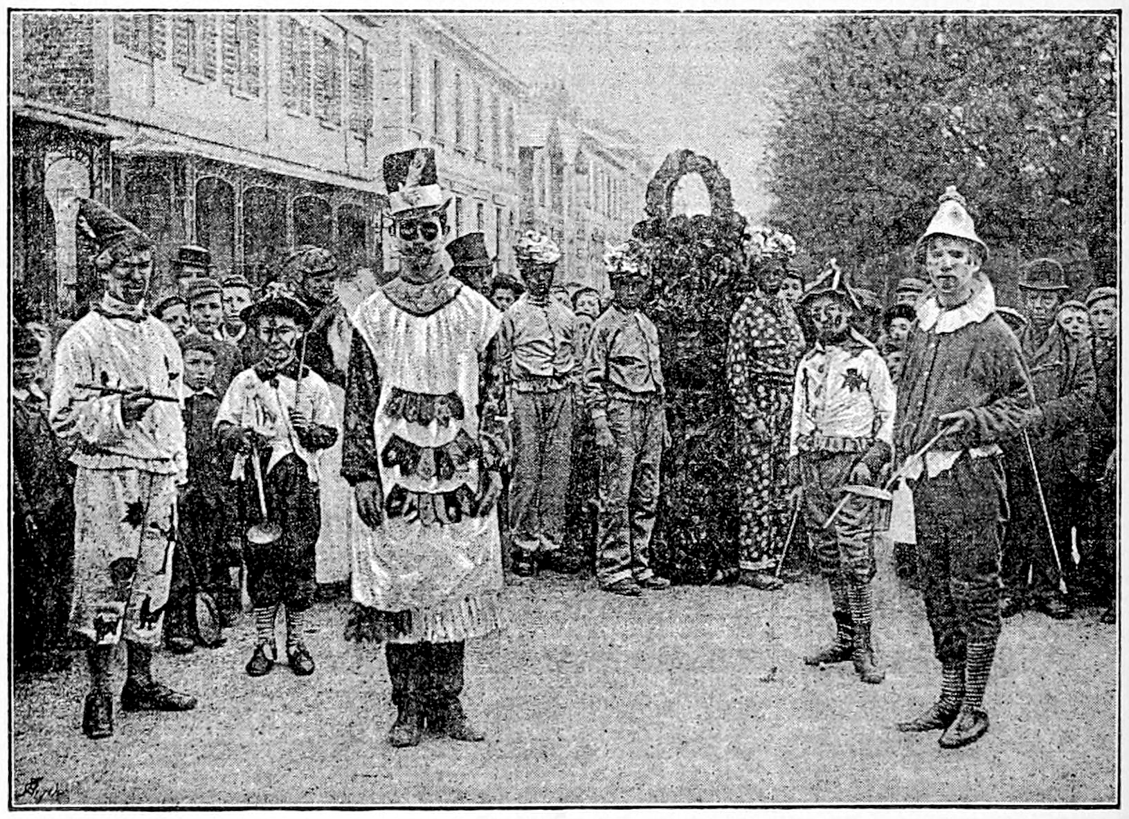 Illustration from a collected volume of journals, it illustrates an article on "MAY-DAY IN CHELTENHAM"